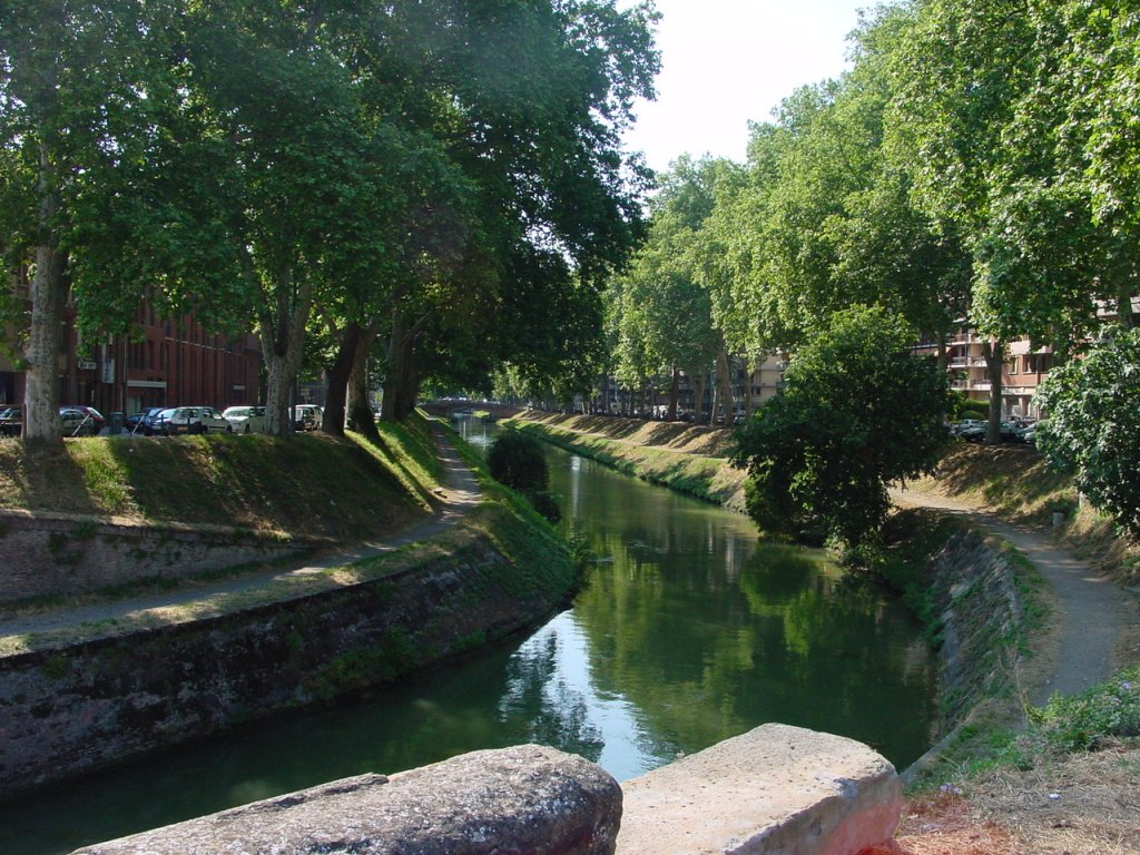 View of Canal de Brienne in Toulouse (Haute-Garonne, France).